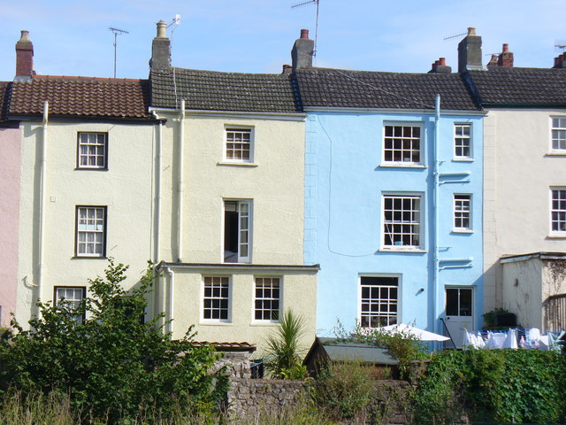 "The Backs" Colourful pastel shades painted on the rear walls of the buildings lining Chepstow's Bridge Street. Seen from the Castle Dell Car park.